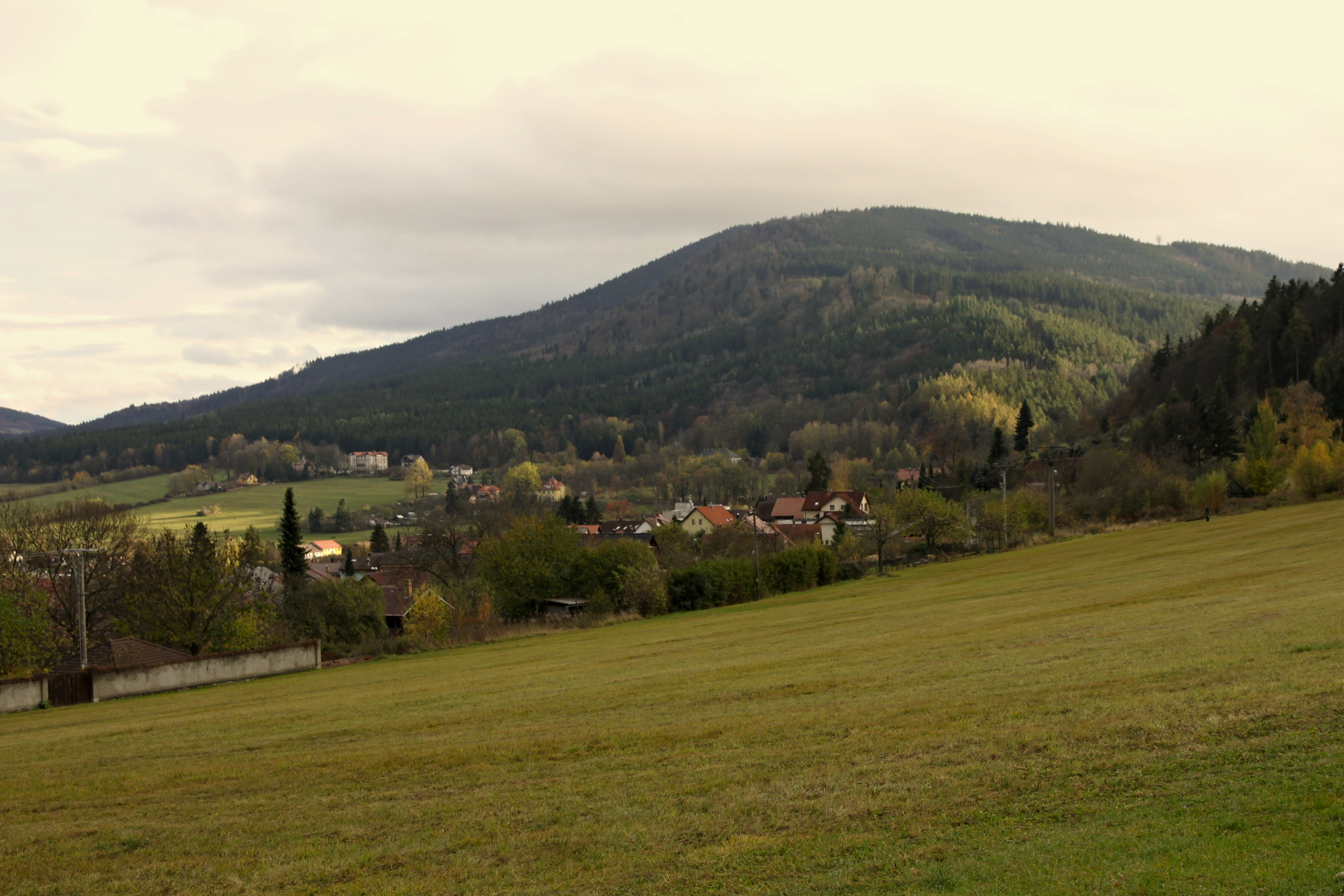 View from the viewpoint "Pod Cvrčkovem" on the Libín hill (1 093 m a.s.l.) Prachatice, South Bohemian Region, Czechia.